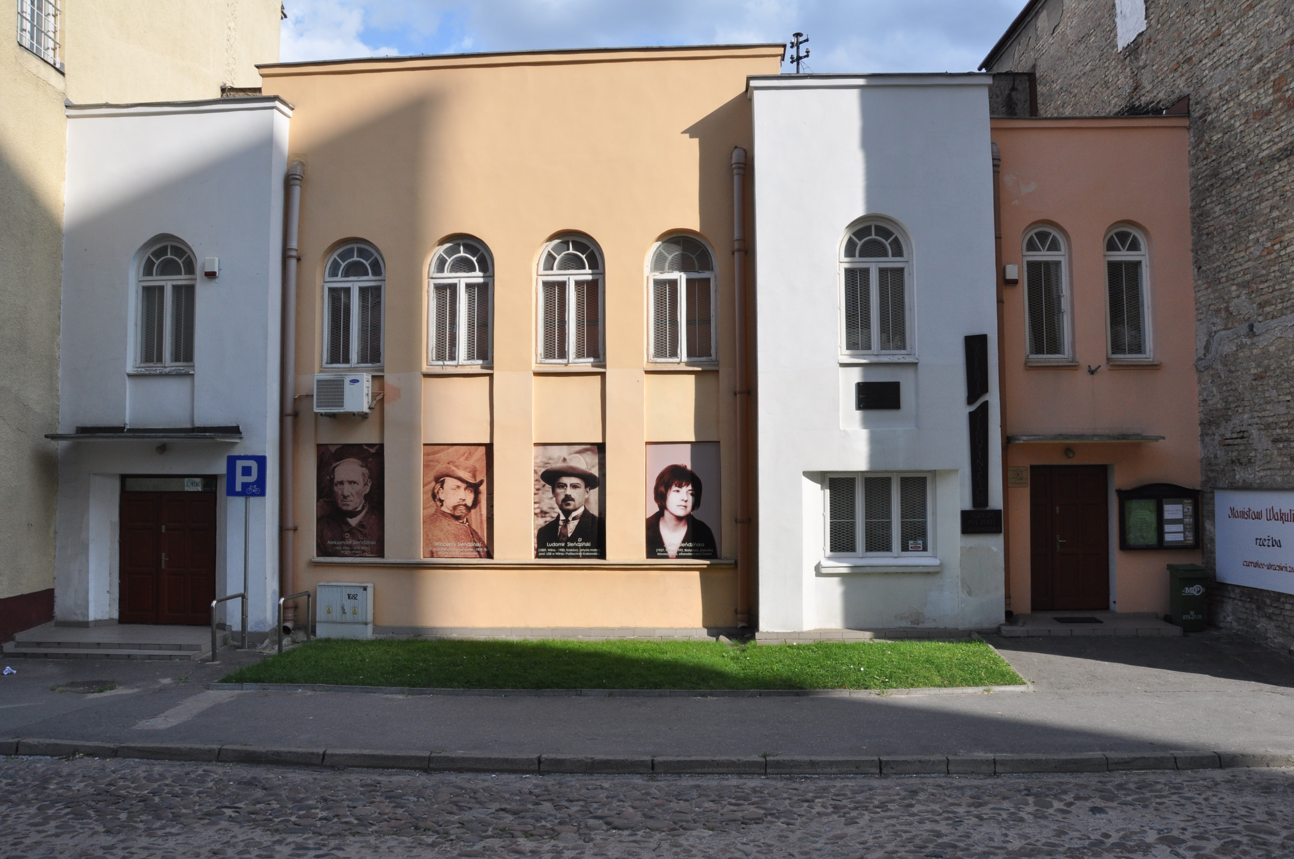 Slendzinskis Art Gallery in Bialystok, Poland - former Cytron Synagogue. The building is one of the sites on Jewish Heritage Trail in Bialystok.